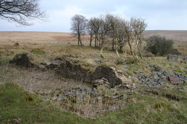 Larkbarrow (Ruin) The 19th C. farmhouse was used for artillery target practice during WWII, hence the ruin. Surrounding land has yielded much evidence of prior occupation, including the eponymous bronze-age barrow, flint working and standing stones. The farm is supposed to have been the inspiration for 'Plover's Barrows Farm', the home of John Ridd in Lorna Doone.